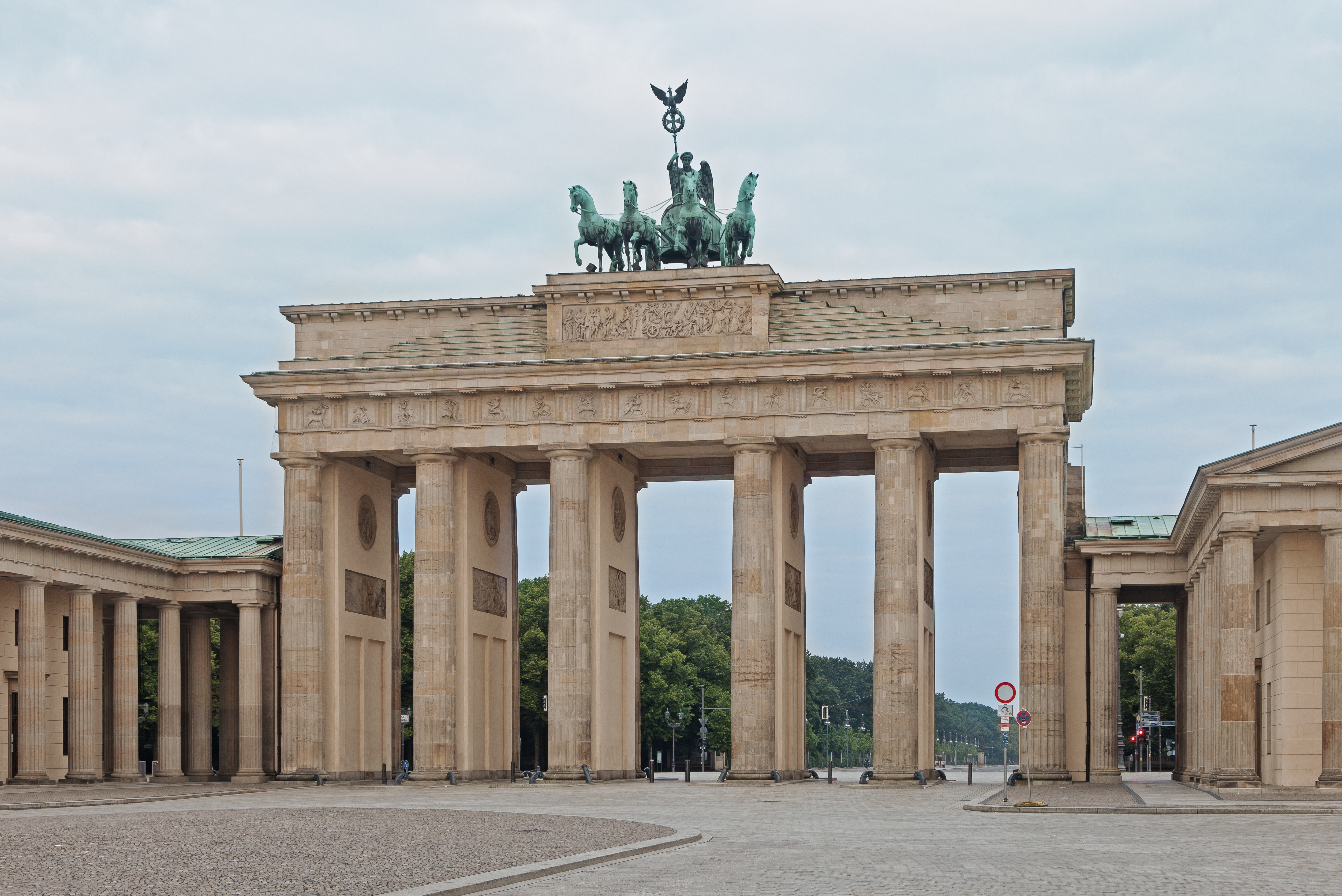 The Brandenburg Gate in Berlin, Germany